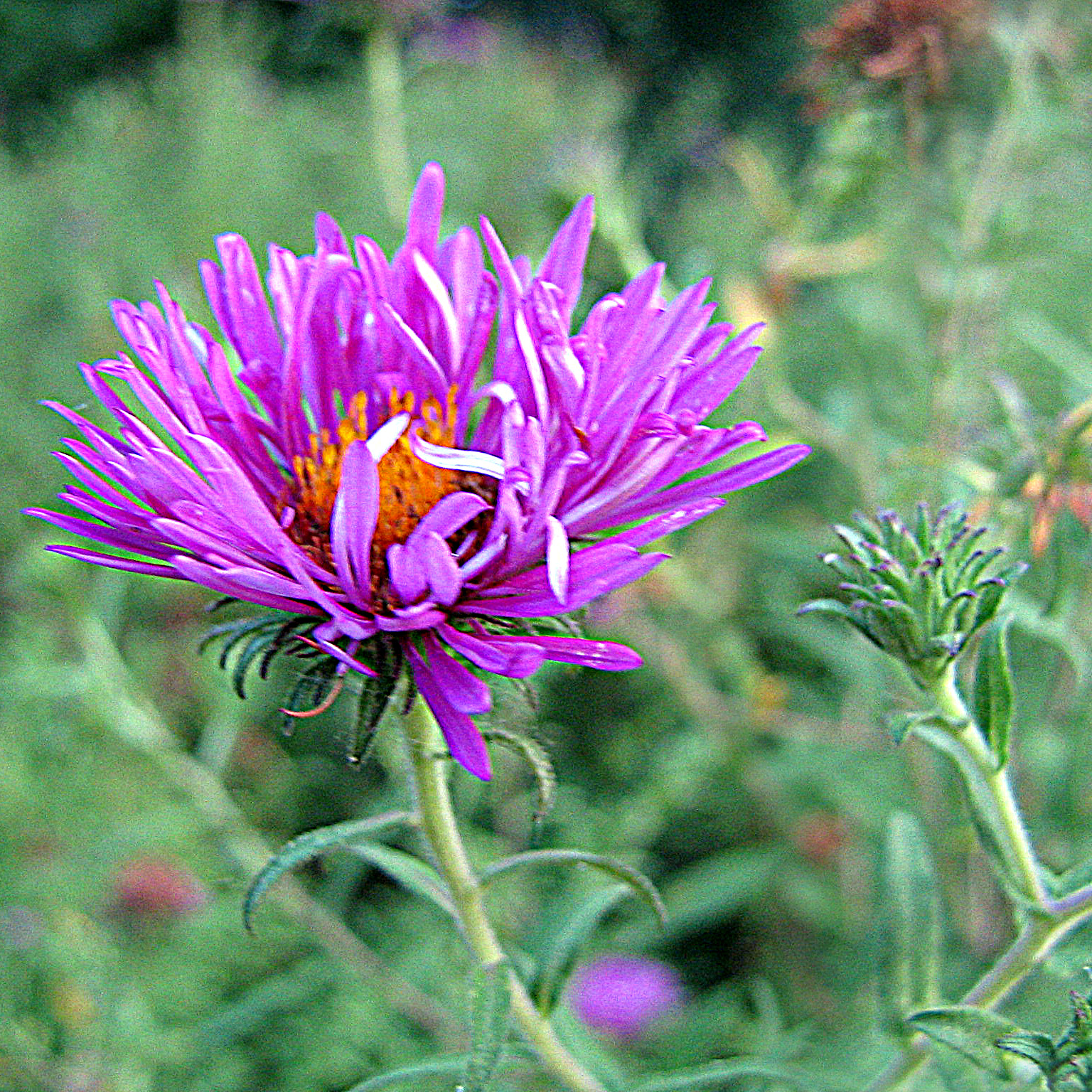 Inflorescence of tSymphyotrichum novi-belgii Tasmajdan park